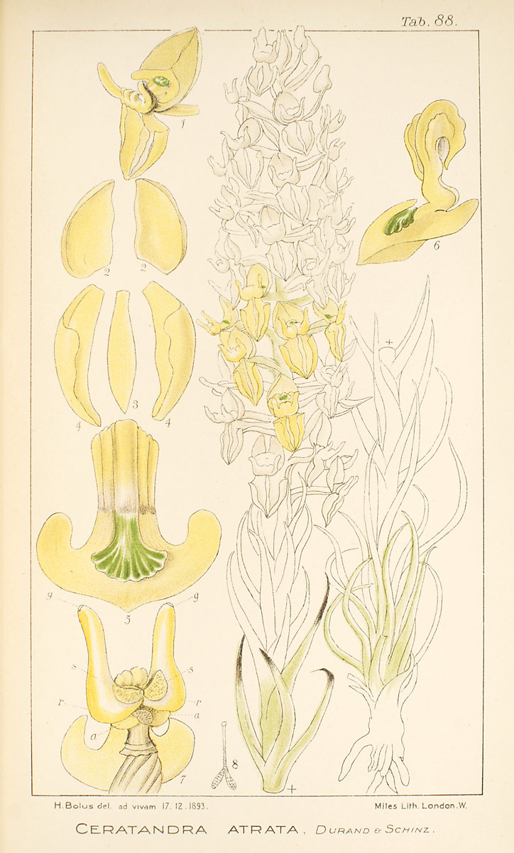 Illustration of Ceratandra atrata from Harry Bolus Icones Orchidearum Austro-Africanarum